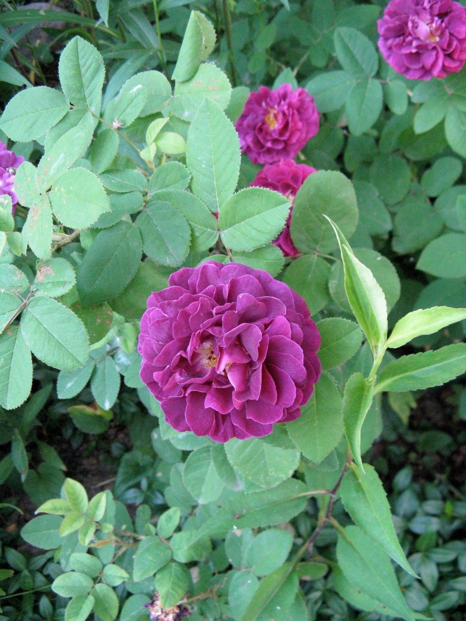 Cultivate, Toronto, Canada